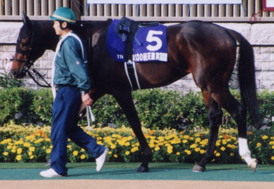 Tsurumaru Boy (horse)